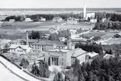 J. W. Suominen leather company in Nakkila, Finland. Today known as the multinational Suominen Corporation.